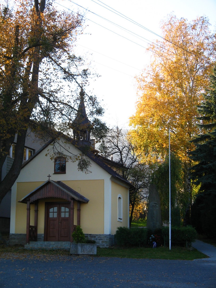 Chapel in Pstruží, Czech rep.